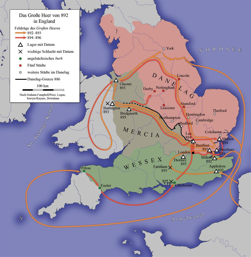 The Great Army 892–896 in England.